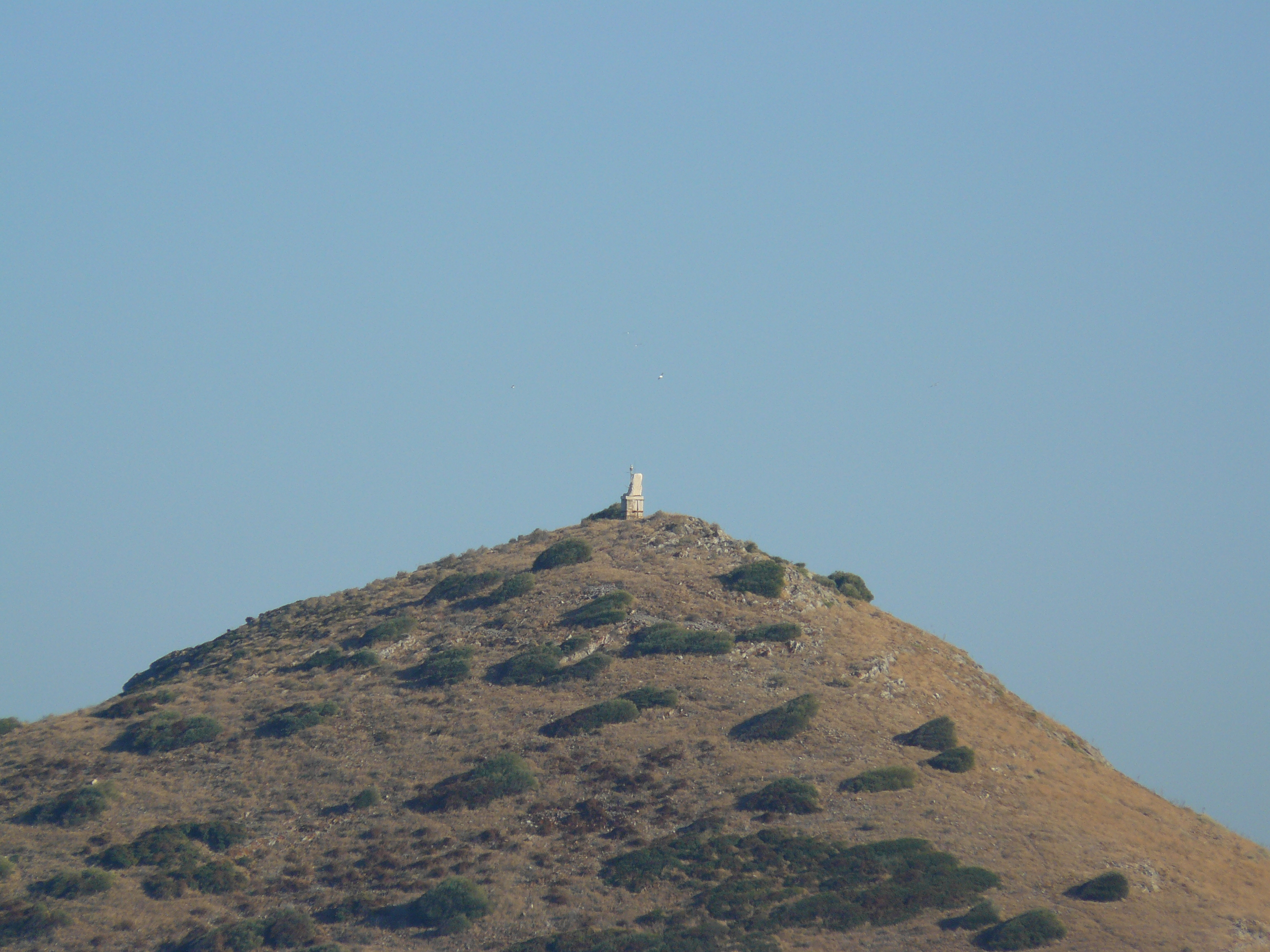 Statue of so called "Tailor" on Island Rafti, Port Rafti (Port of the Taylor / Port of the Tailor).